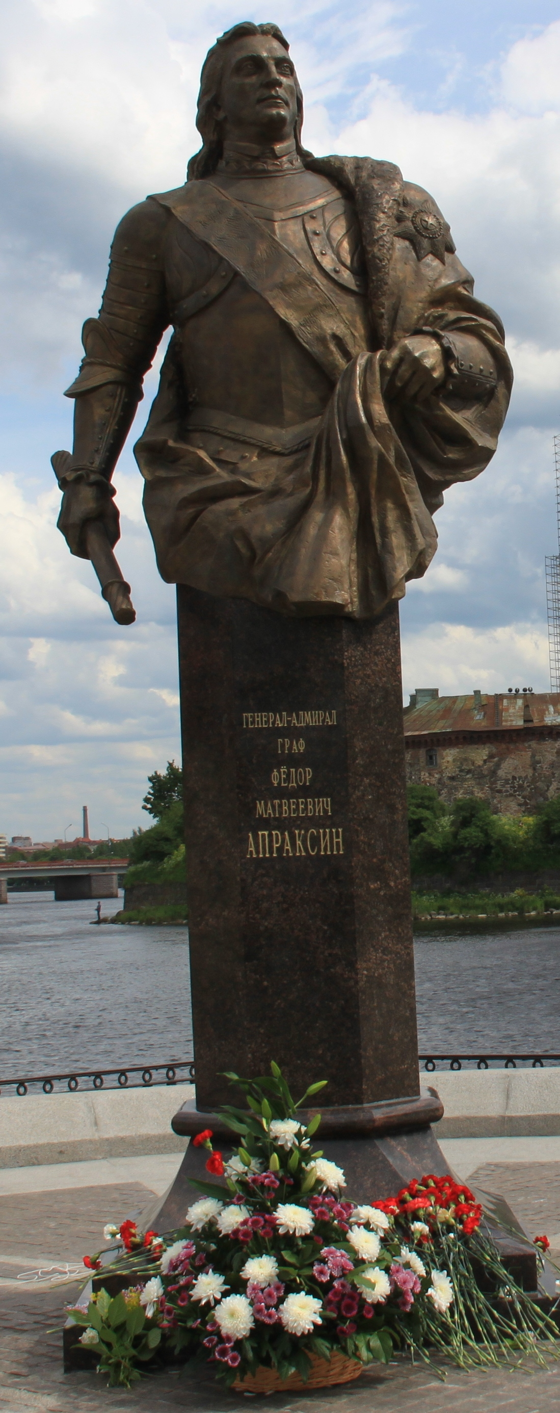 Monument to Fedor Apraxin, opened on June 19, 2010. Photo made on the same day.